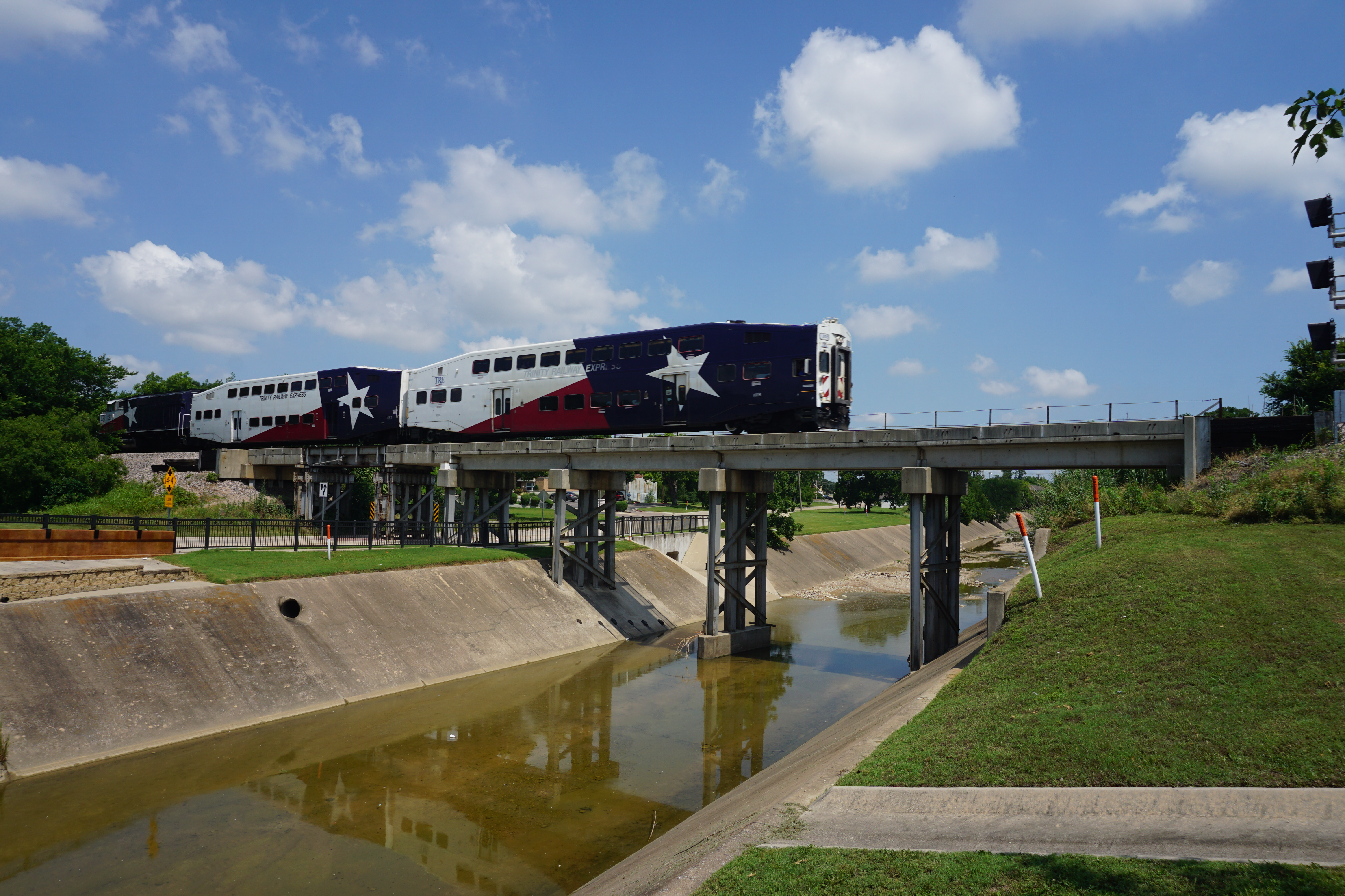 A Trinity Railway Express train, pushed by EMD F59PH #121, approaching Downtown Irving/Heritage Crossing station in Irving, Texas (United States).